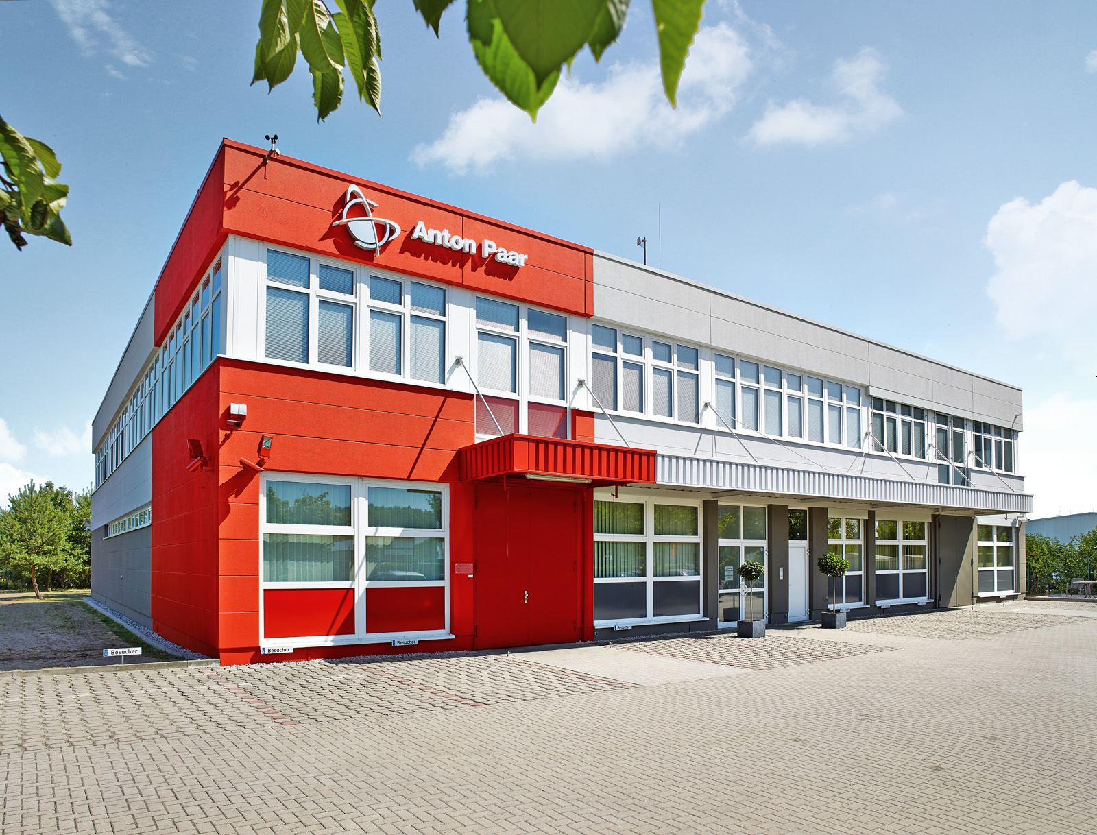 Front view of the company building of Anton Paar ProveTec GmbH in Dahlewitz, Germany.